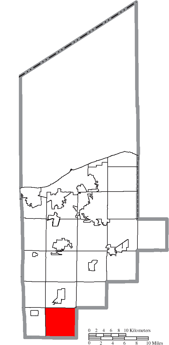 Map of the municipal and township boundaries of Lorain County, Ohio, United States, as of the 2000 census, with the location of Huntington Township highlighted. Township borders are shown only in unincorporated areas in order to differentiate incorporated and unincorporated areas more clearly.